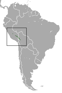 Aceramarca Gracile Mouse Opossum (Gracilinanus aceramarcae) range, along with national borders